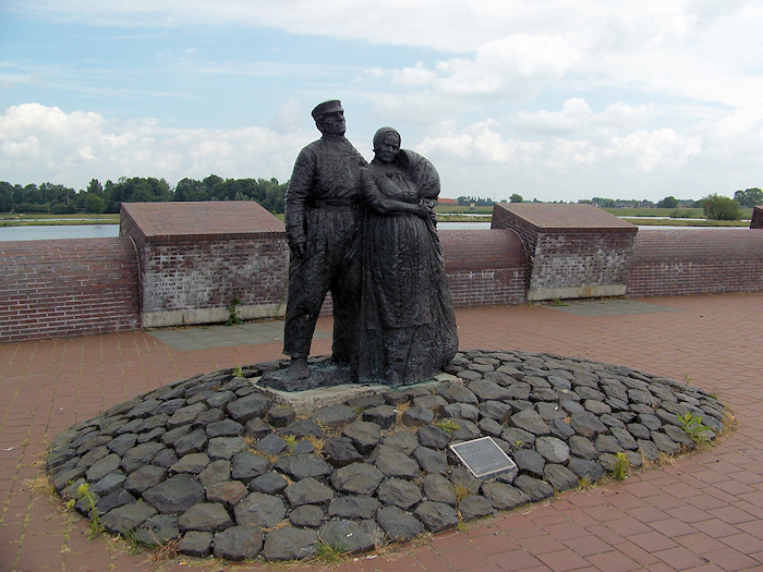 Schokkermonument in Kampen